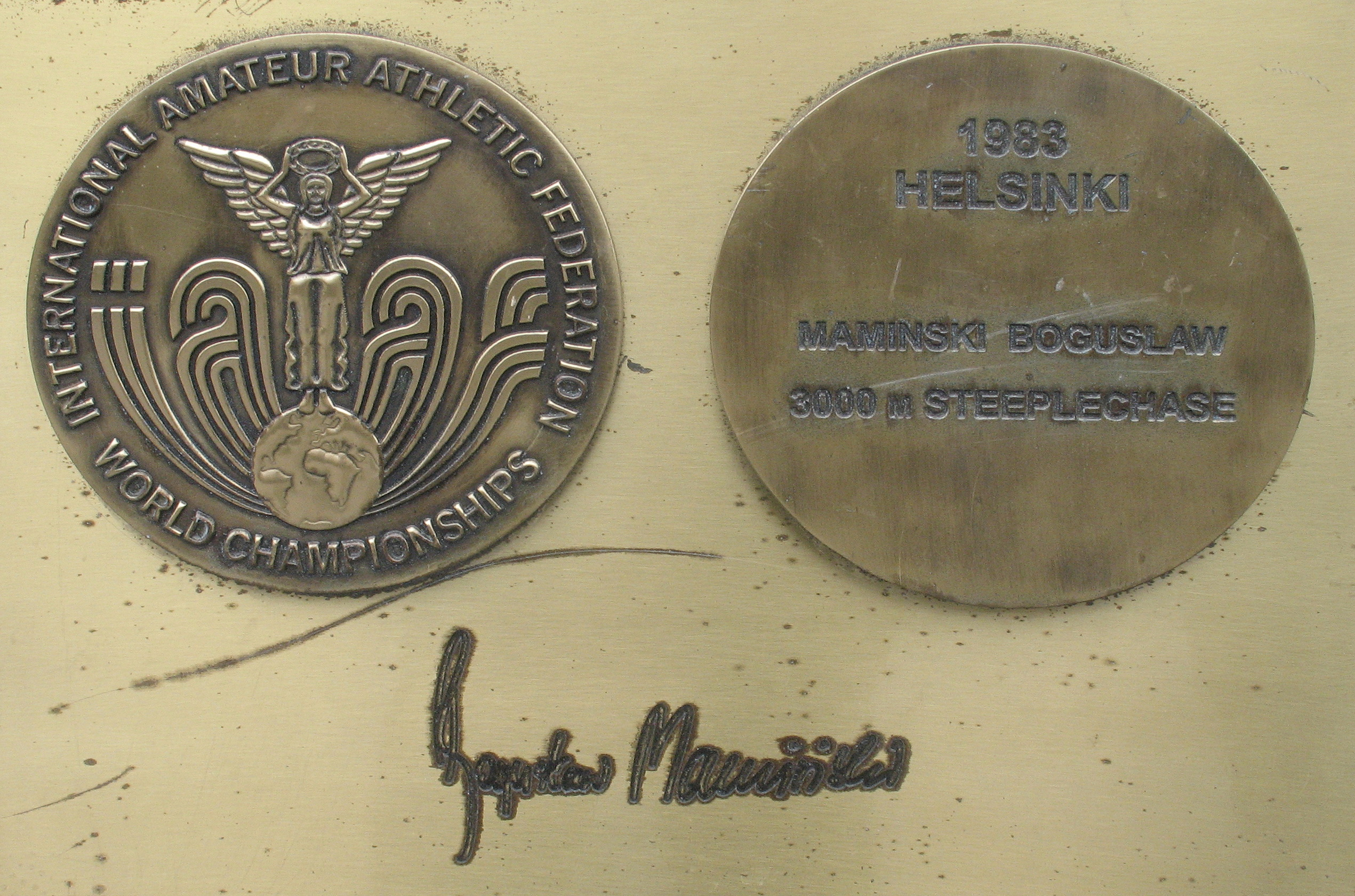 Bronisław Maminski medal & autograph in Avenue of Sport Stars Dziwnów